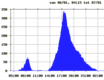 Length of traffic jams on 6 jan 2010